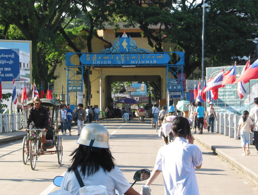 tachileik border bridge